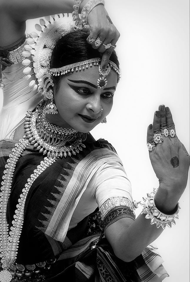 Odissi is a classical Indian dance that originated in Odisha, India